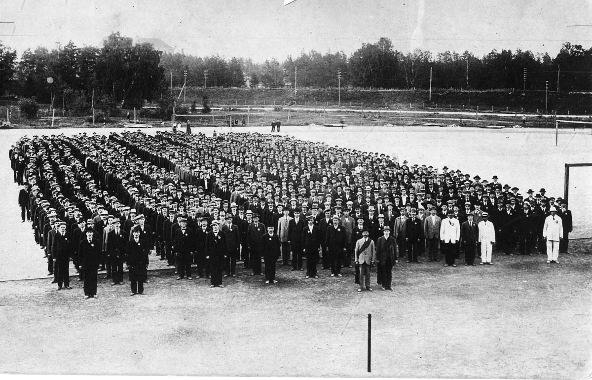 Helsinki Worker's Order Guard in the fall of 1917. Image taken in the Eläintarha sports ground.